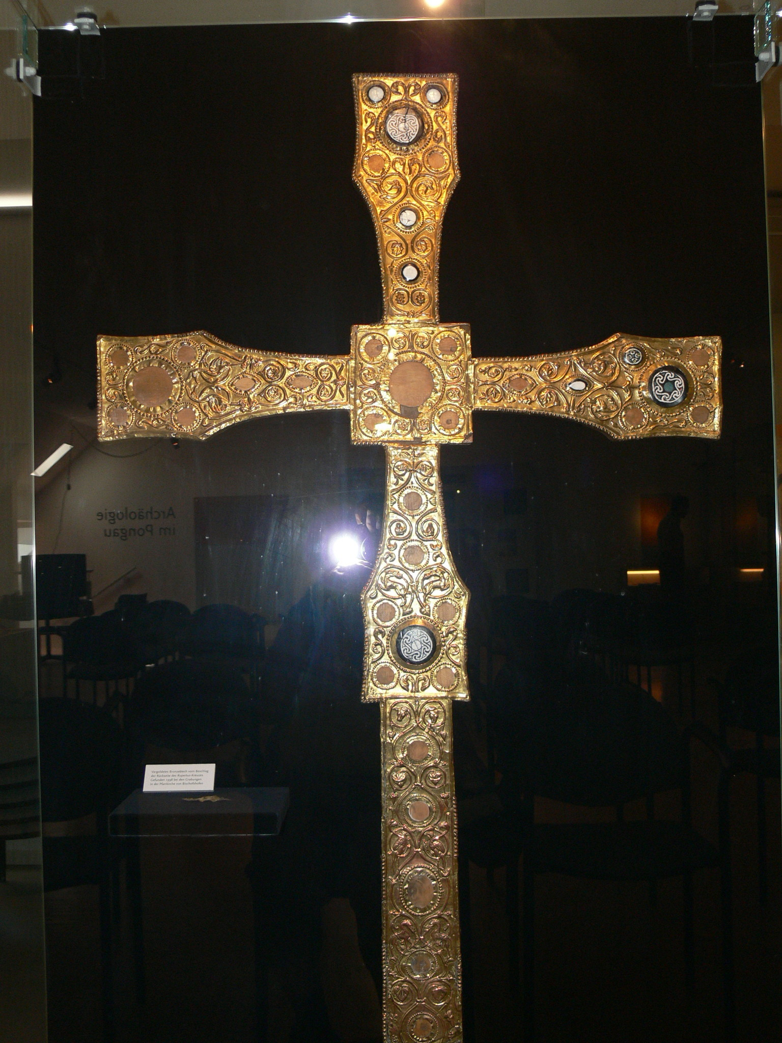 Museum im Kastenturm, Bischofshofen ( Salzburg ). Cross of Saint Rupert ( 8th century )